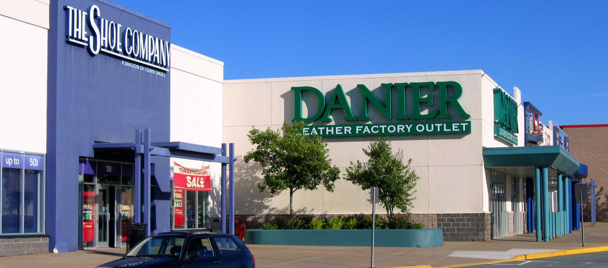 Bayers Lake Business Park stores - The Shoe Company and Danier Leather Factory Outlet